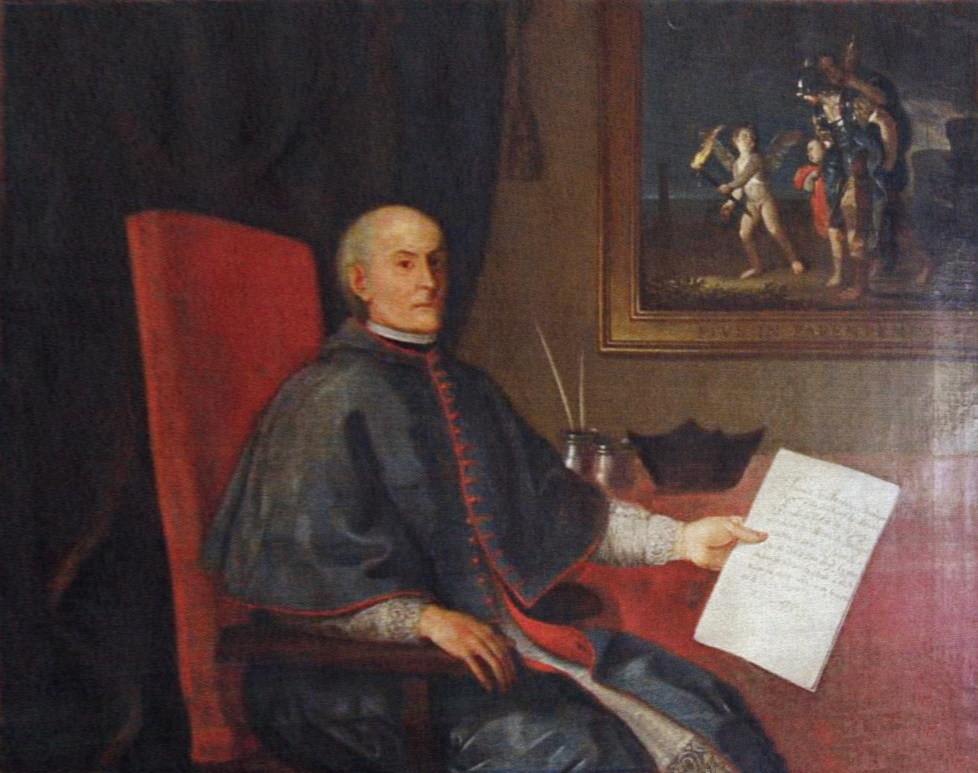 Portrait of António de Mendonça, Archbishop of Lisbon (c. 1750), by Francisco Vieira Lusitano.